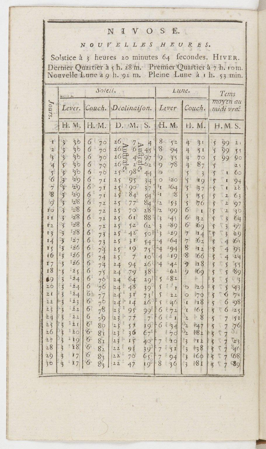 Almanach national de France, l'an deuxieme - Nivose, nouvelles heures National Almanac of France. Table of the rising and setting of the sun and moon and solar noon in decimal time or "new time" for the days of the month of Nivose in the French Republican Calendar during the second year of the Republic (1793-1794), and the times of the winter solstice and phases of the moon, according to local apparent time in Paris, France. In French. For the decimal time article. Other information Titre : Almanach national de France ... Éditeur : Testu (Paris) Date d'édition : 1793-1803 Contributeur : Testu, Laurent-Étienne (1765-1839). Directeur de publication Type : texte,publication en série imprimée Langue : Français Format : application/pdf Droits : domaine public Identifiant : ark:/12148/cb344541079/date Identifiant : ISSN 11690488 Source : Bibliothèque nationale de France Relation : Description : Etat de collection : An V (1796)-an XI (1803) Provenance : bnf.fr Date de mise en ligne : 16/09/2013